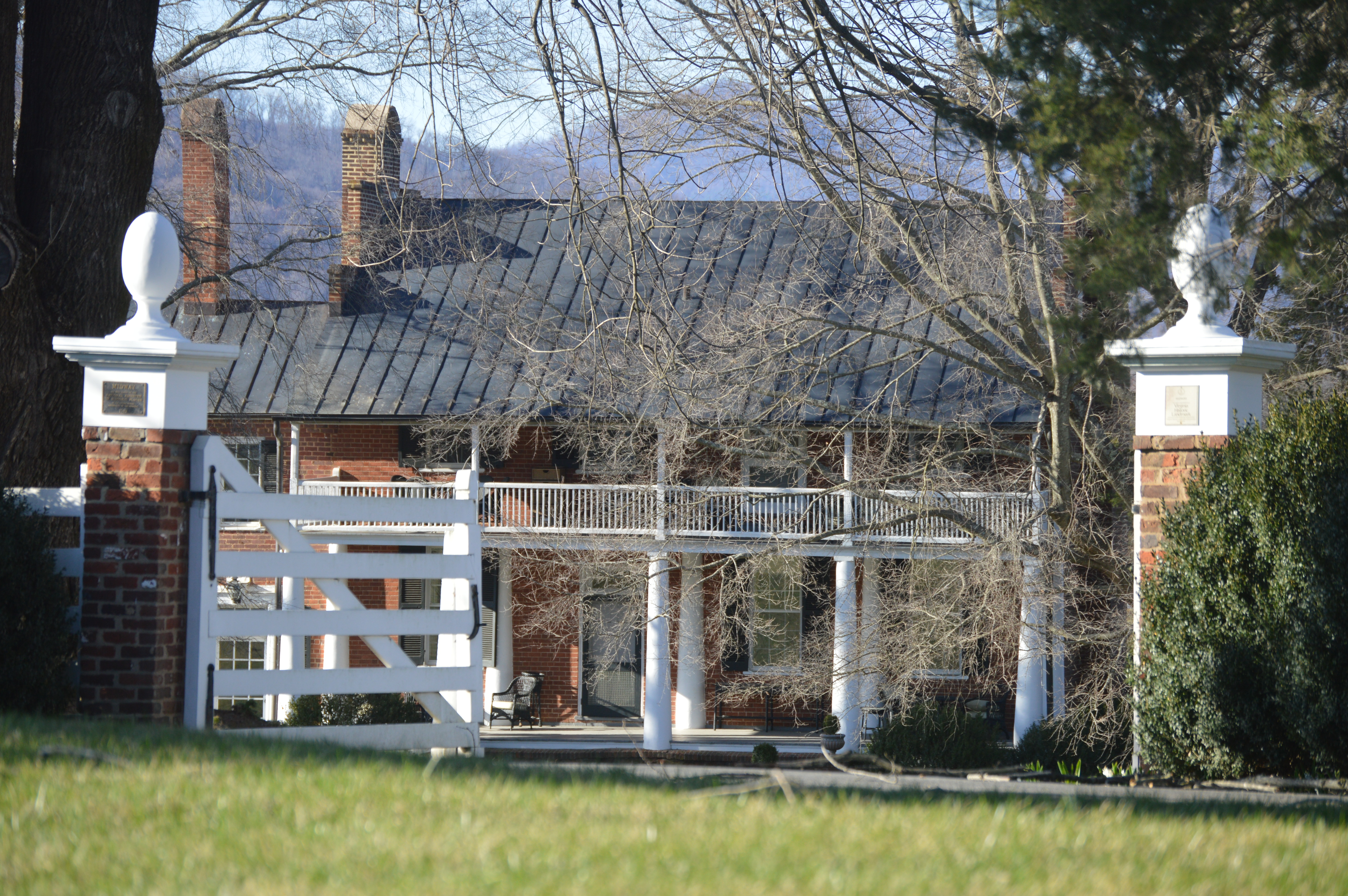 Front of Midway, located on Ridge Road northwest of Charlottesville in Albemarle County, Virginia, United States. Built in 1815, it is listed on the National Register of Historic Places.